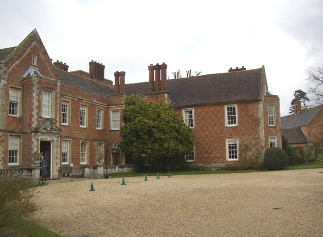 The east front of The Vyne, Sherborne St John. At SU637568. This house was first built for Lord Sandys, Henry VIII's Lord Chamberlain in the early 16C, but was altered and reduced in size in the mid-17C. It was bequeathed by Sir Charles Chute to the National Trust in 1956. The Classical portico on the west front (see other photo) was the first of its kind in England.